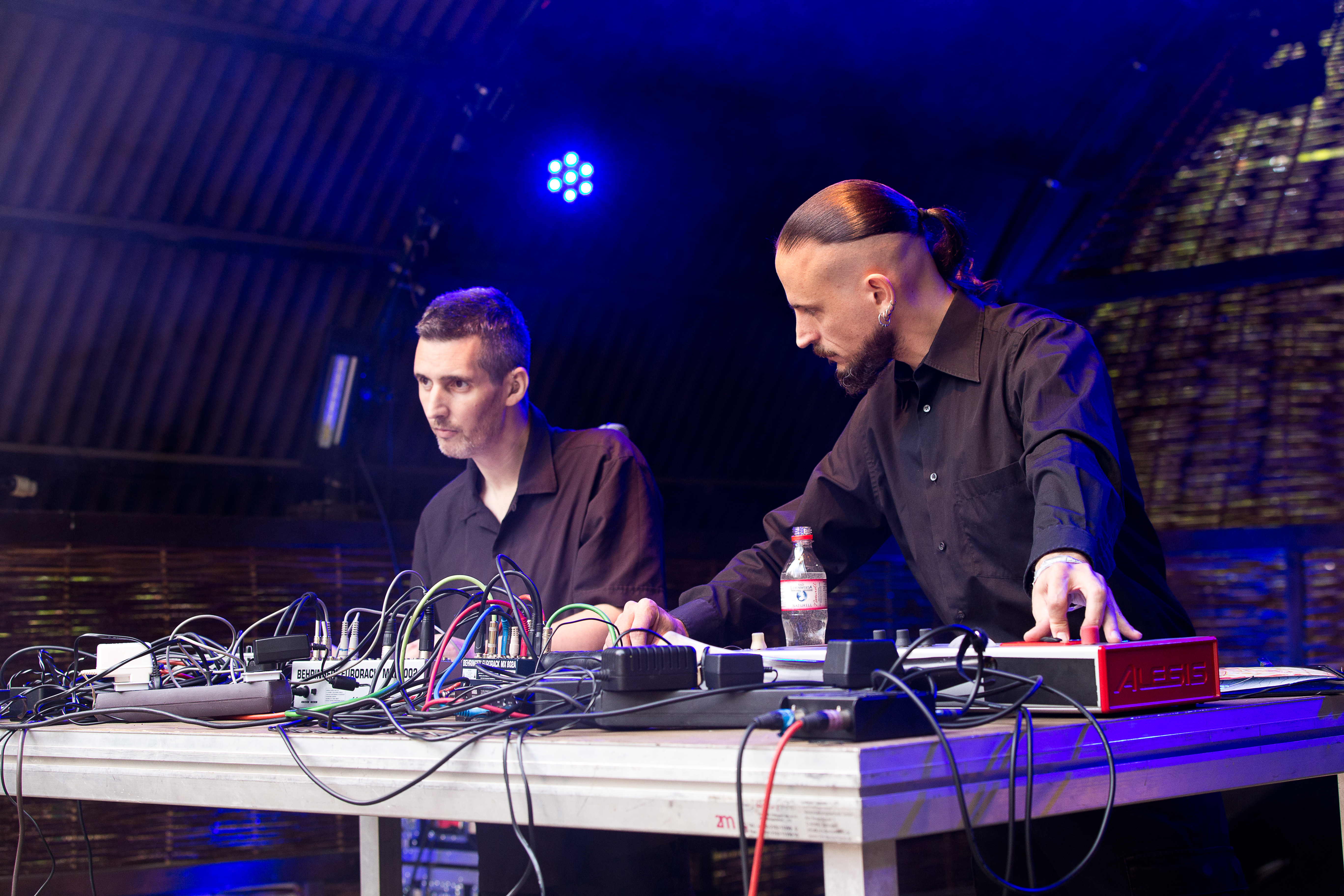 The German industrial noise band Gerechtigkeits Liga at the Nocturnal Culture Night 11 2016 in Deutzen/Germany.